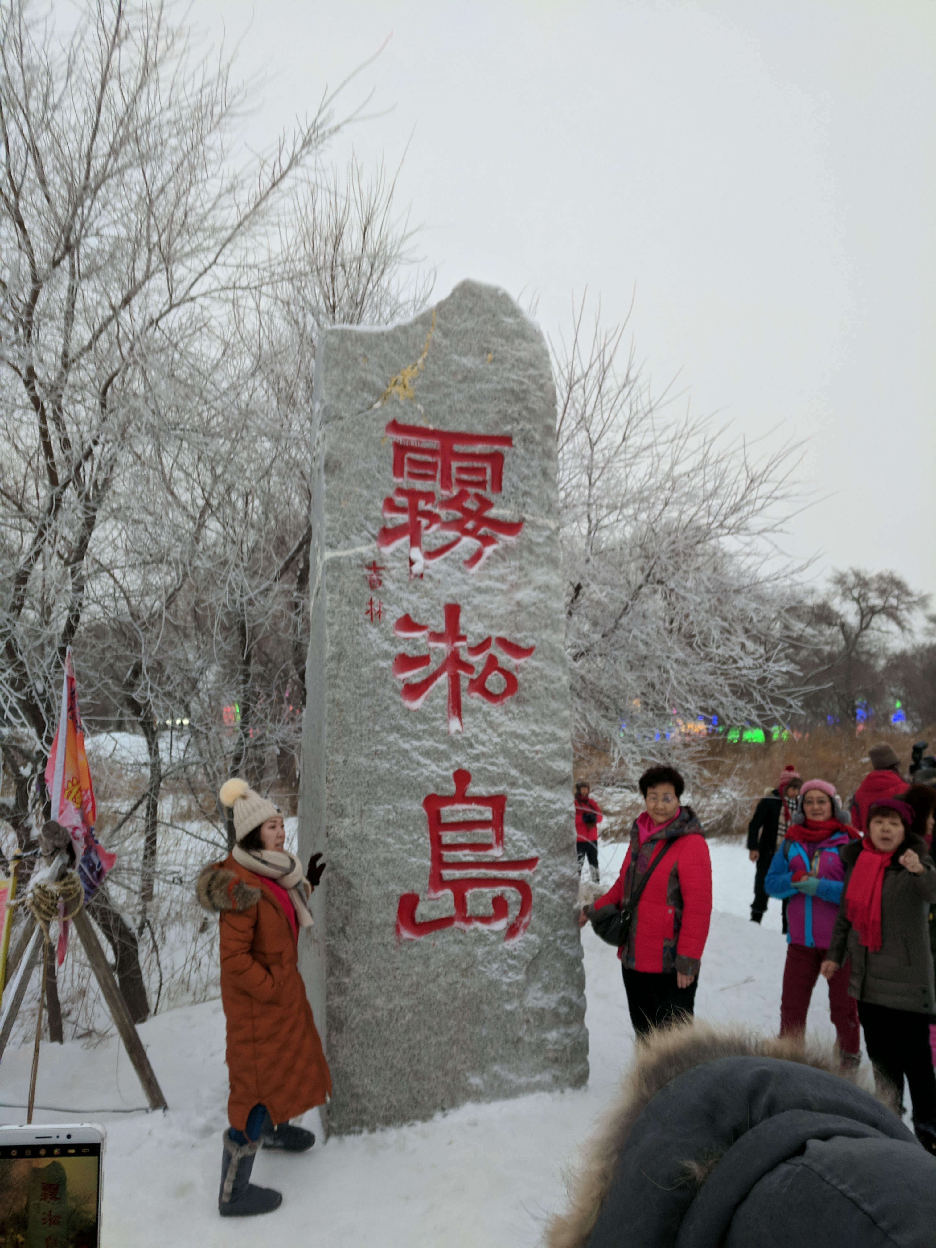 To be filled